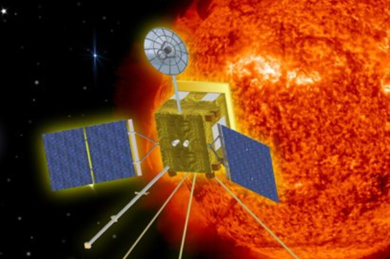 Artist concept of the Solar Orbiter circling the Sun